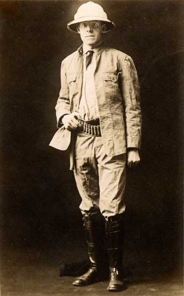 Charles Wellington Furlong in safari gear in the early 1900s